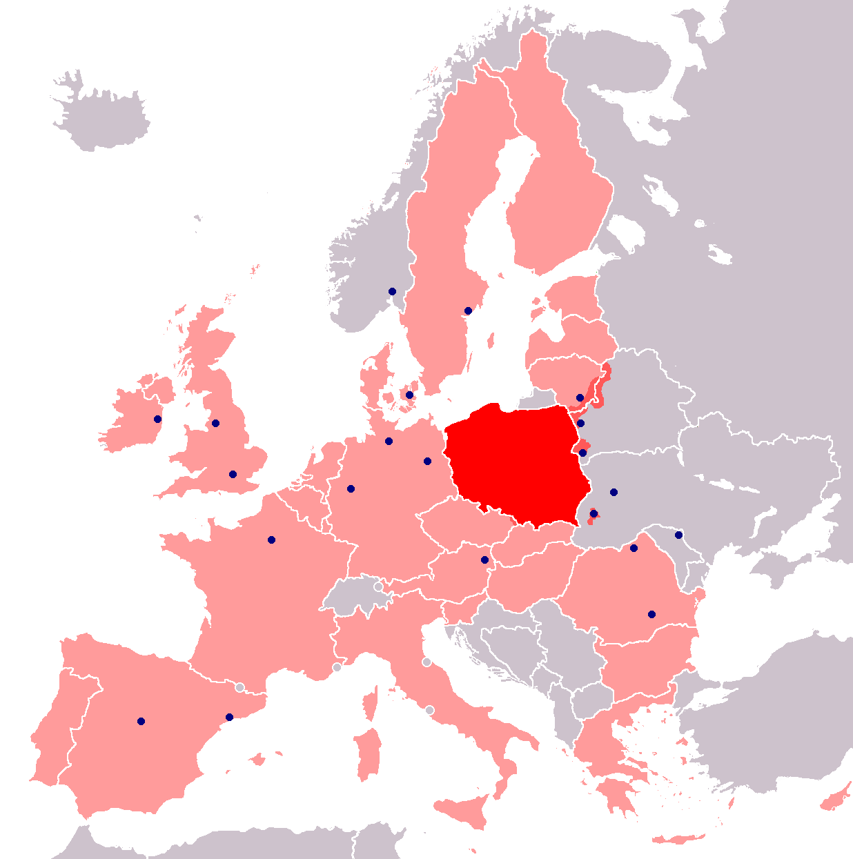 A map of Europe showing: in red: Poland, where Polish is the official language in dark pink: regions with significant Polish-speaking minorities in light pink: the European Union, where Polish is one of the official languages blue dots indicate major Polish-speaking communities